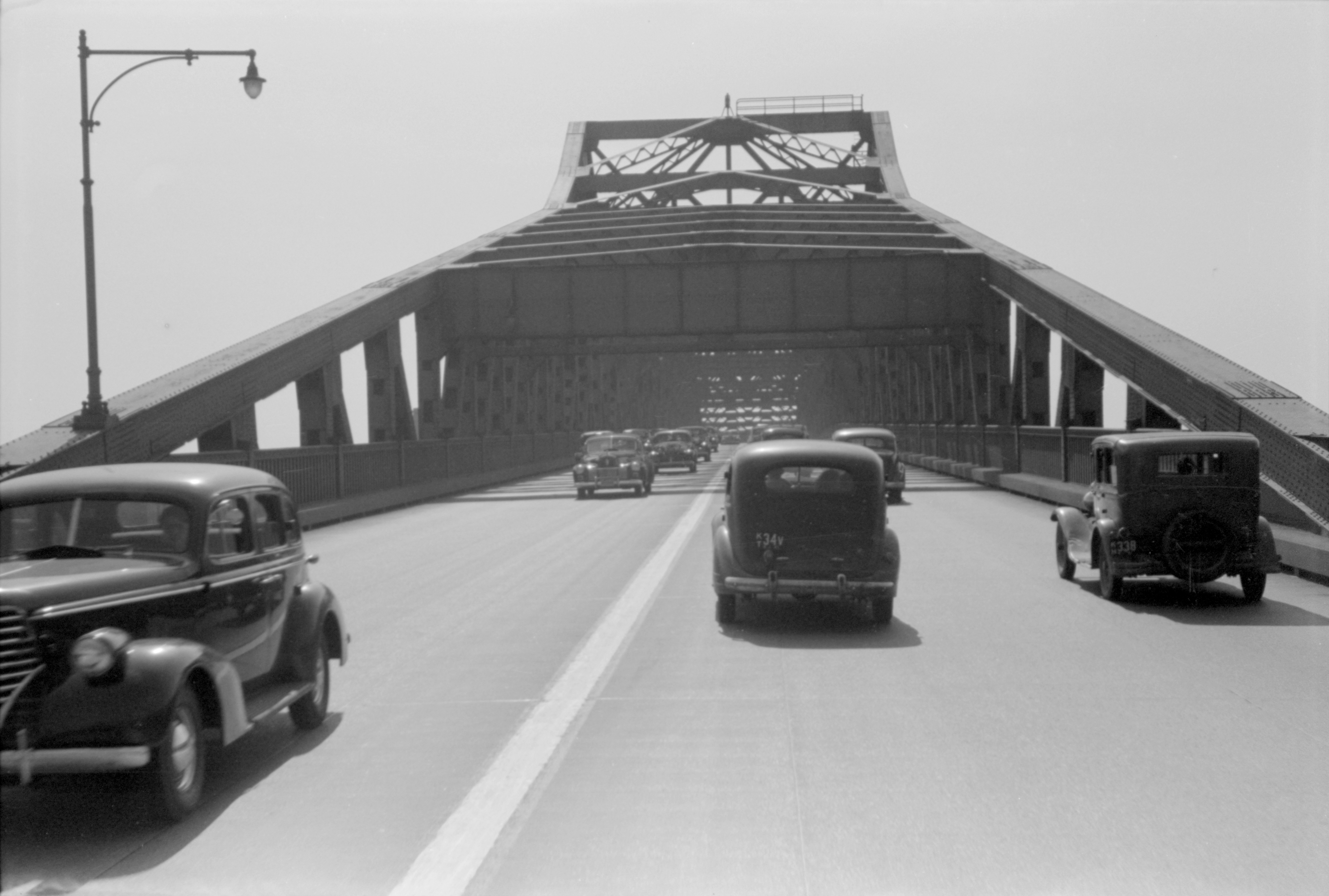 This shows the Pulaski Skyway before a median barrier was installed. (Comment by User:NE2)